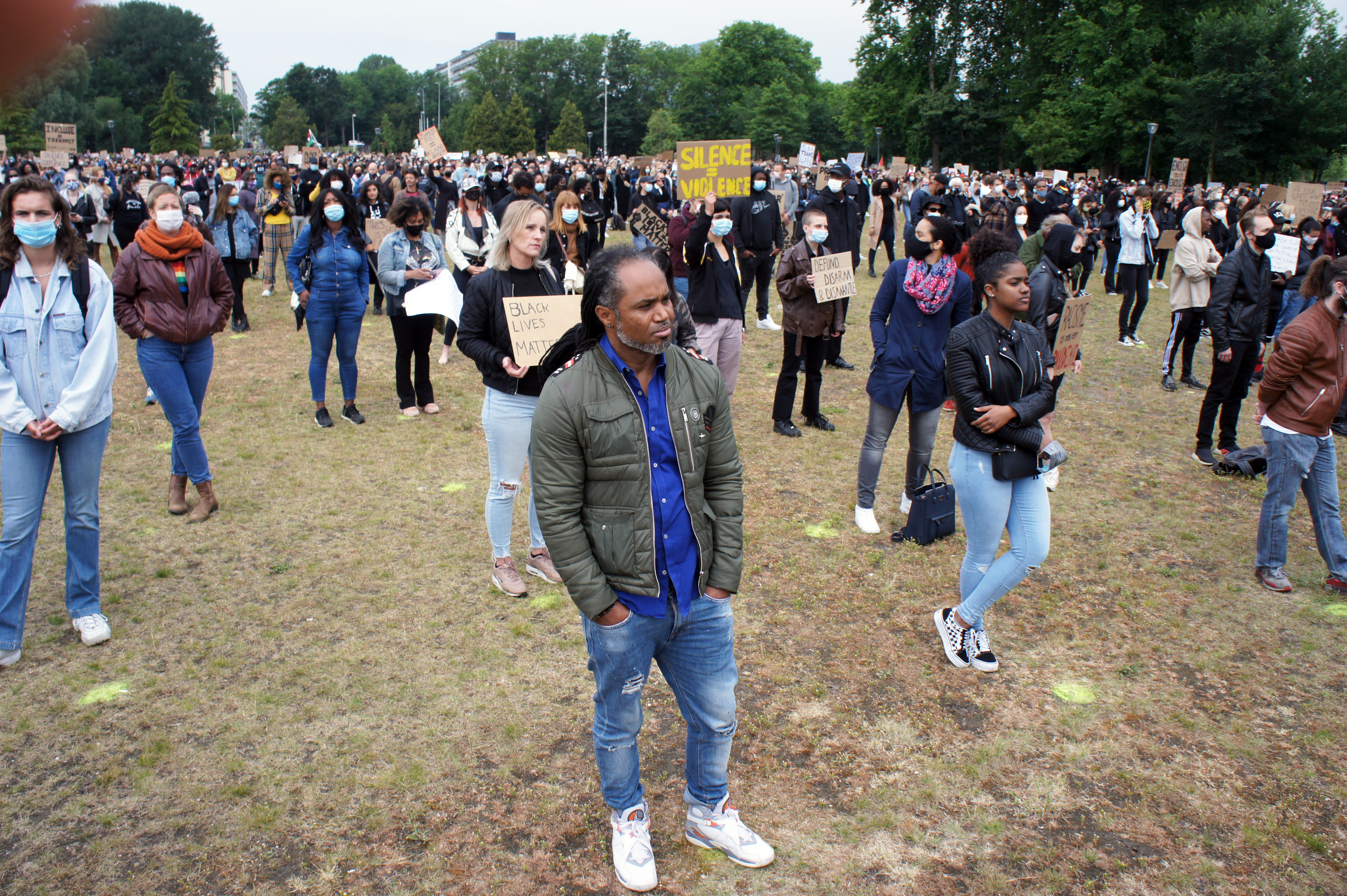 Black Lives Matter solidarity protest in Nelson Mandela Park, Bijlmer, Amsterdam, Netherlands on June 10, 2020